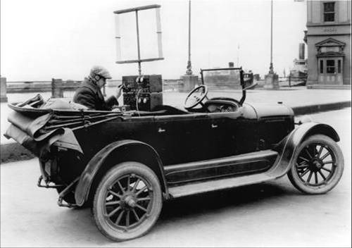 Car-mounted radio-telephone, 1924